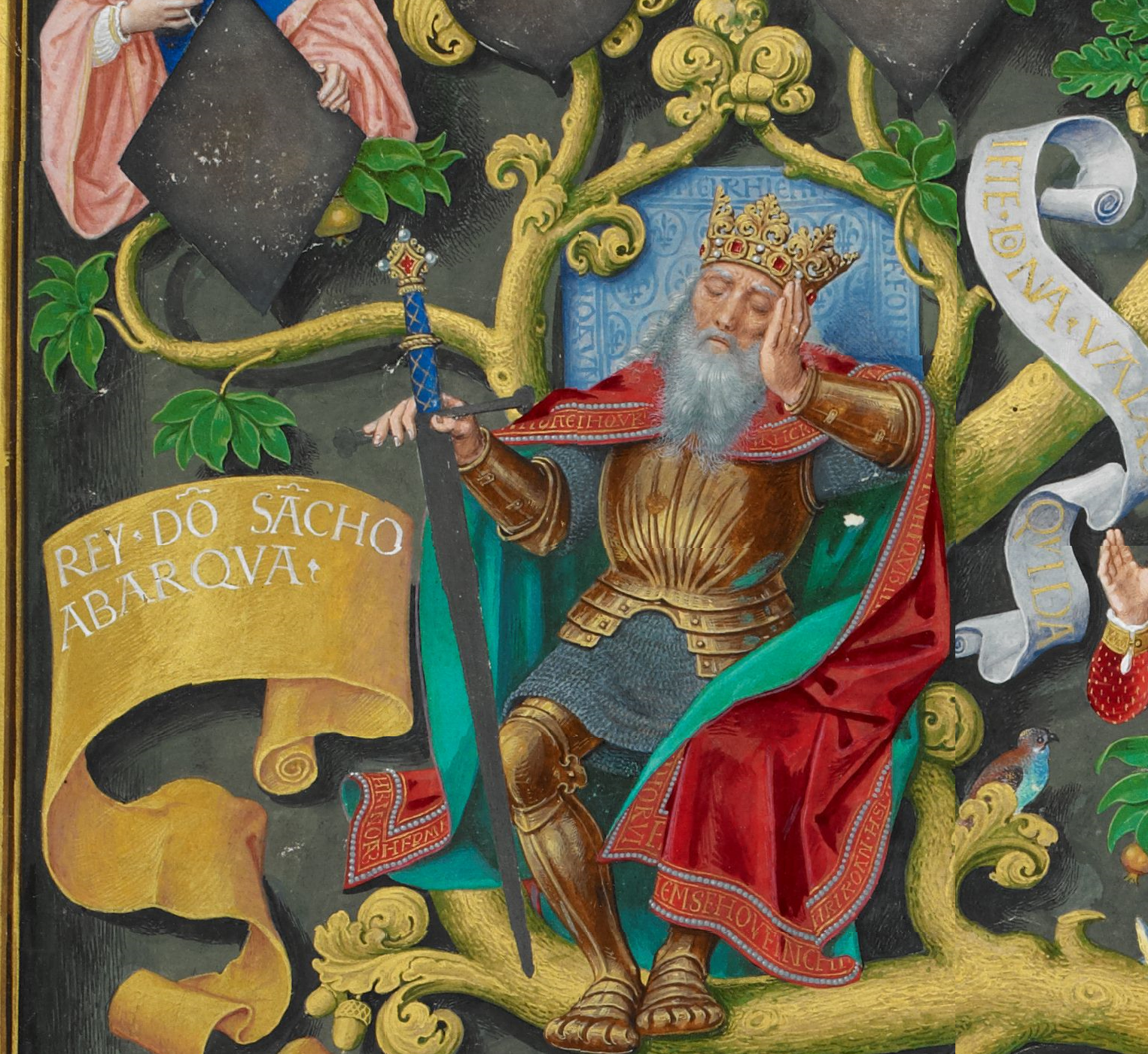 Sancho I Abarqua (Abarca), King of Navarre. This is not Sancho II, but Sancho I, as it can be seen in the succession and wife: first, in the tree he succedes to the last Iñiguez (and Sancho I is the founder of the dynasty, he couldn't just be forgotten; second, he is beside a Theodora (certainly referring to Toda Aznarez, wife of Sancho I (not II), and thirdly, his children are of Sancho I and not Sancho II. There is also a theory where the surname "Abarca" is wrongly given to Sancho II, when it refers in fact to his grandfather, Sancho I. For more information about the Sancho confusion read this article: Cañada Juste, Alberto (2012). "¿Quién fue Sancho Abarca?". Príncipe de Viana: 79–132. ISSN 0032-8472.